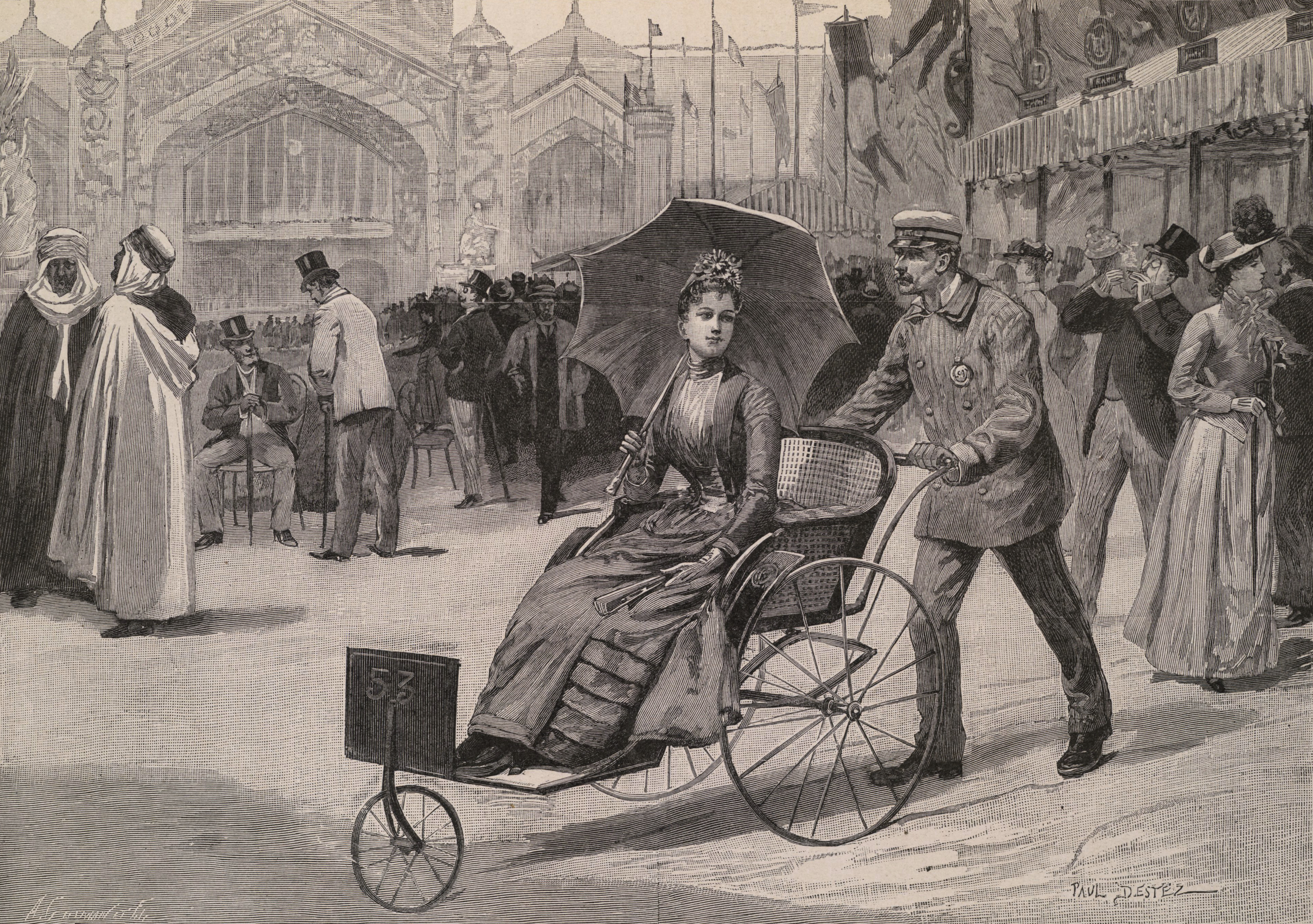 During the 1889 World Fair, wheelchairs were a common means of transportation, for women in particular. The "élégantes" could rest and visit the Fair at the same time.